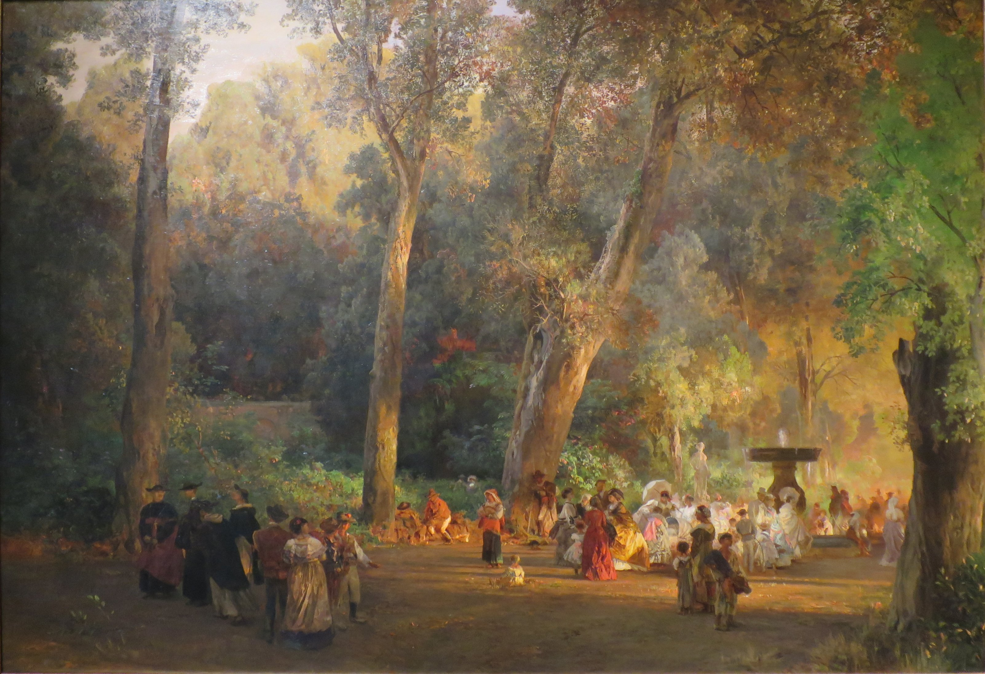 In the Park of Villa Torlonia by Oswald Achenbach, 1878-80, Pushkin Museum